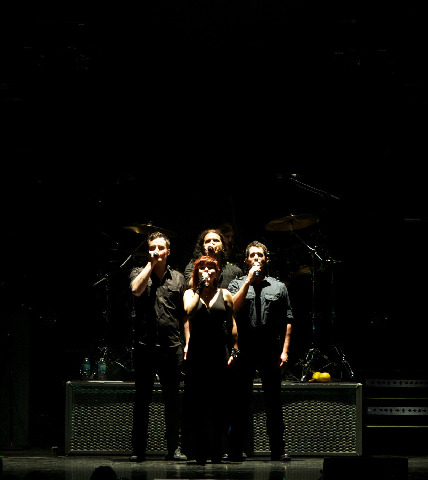 The Queen Extravaganza performing Bohemian Rhapsody in Detroit, Michigan, United States